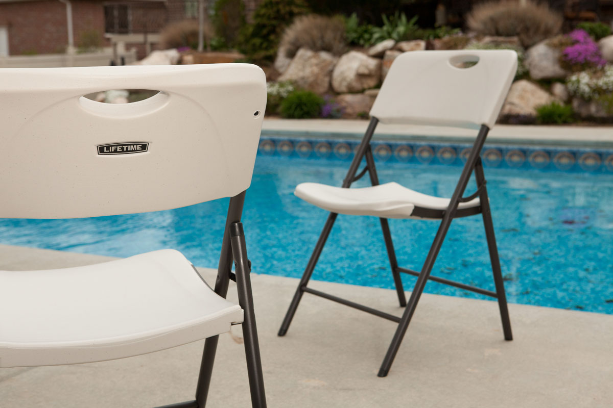 Lifetime Folding Chair